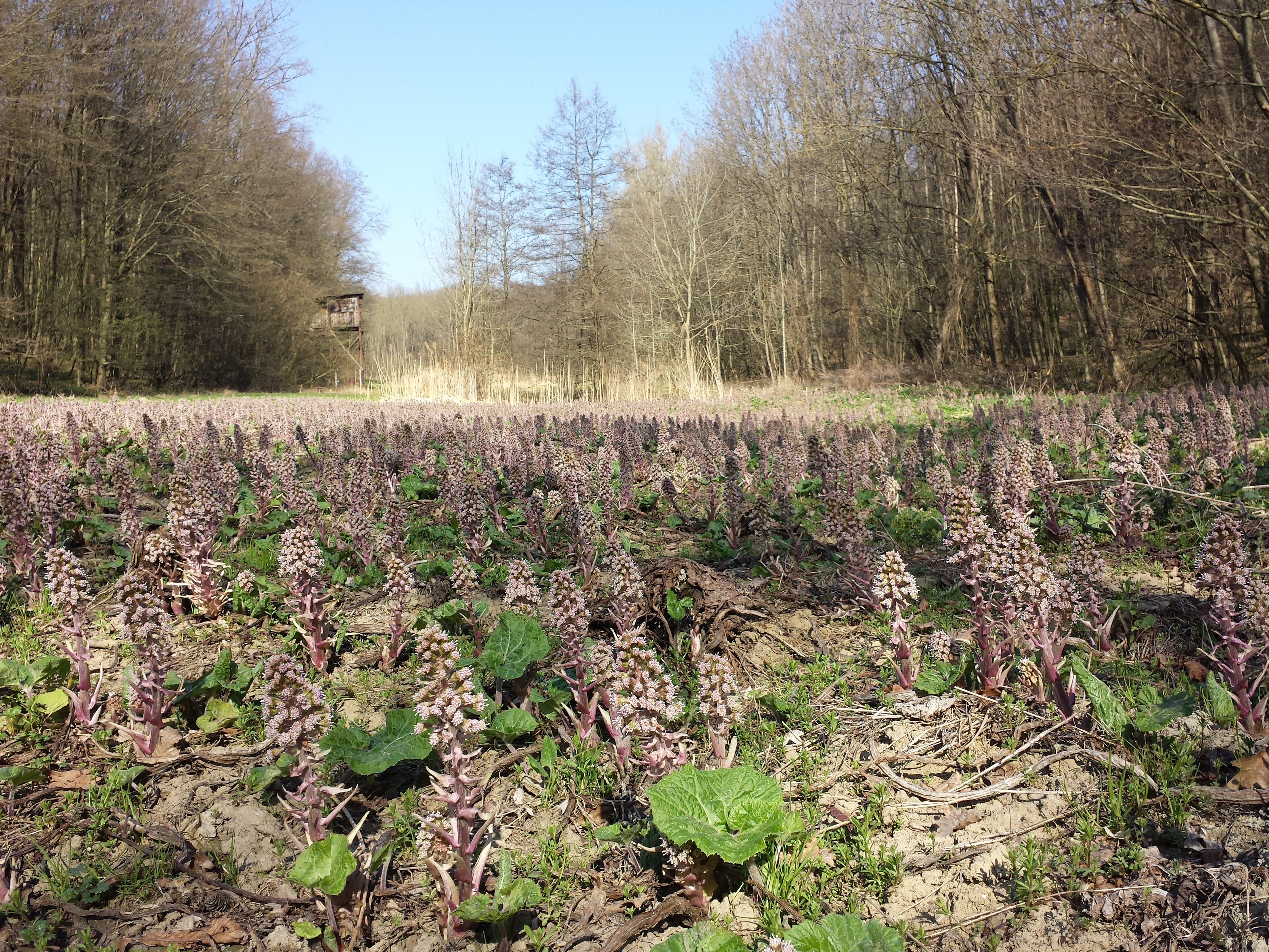 Habitat Taxonym: Petasites hybridus ss Fischer et al. EfÖLS 2008 ISBN 978-3-85474-187-9 Location: Kreuttal, district Mistelbach, Lower Austria - ca. 230 m a.s.l. Habitat: glade